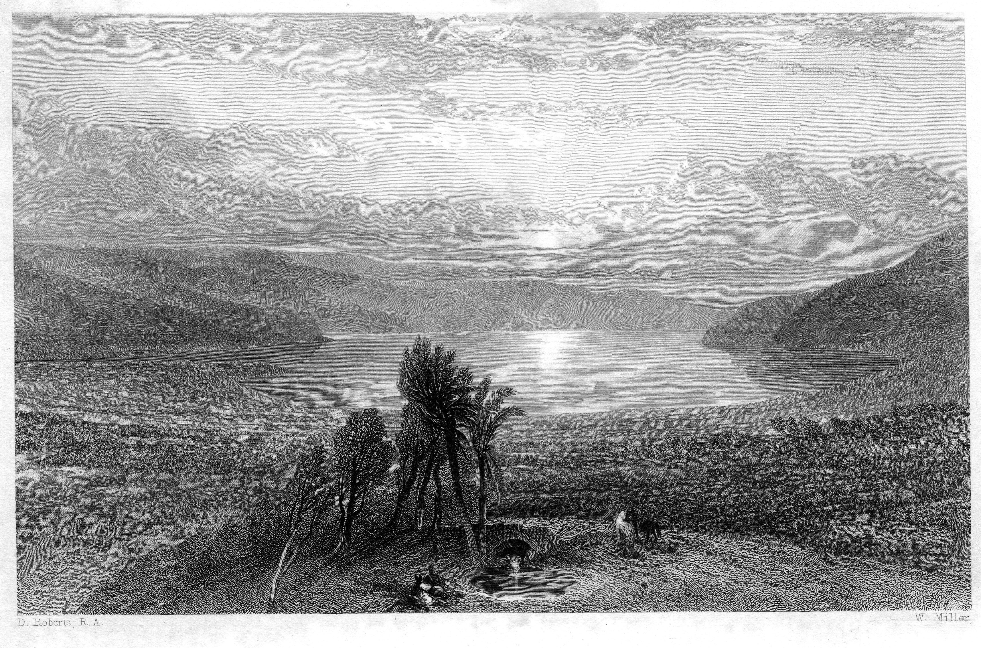 The Dead Sea engraving by William Miller after D Roberts, published in Waverley Novels vol ix (Abbotsford Edition). Walter Scott. Edinburgh and London: Robert Cadell, Houlston & Stoneman 1842 - 1847